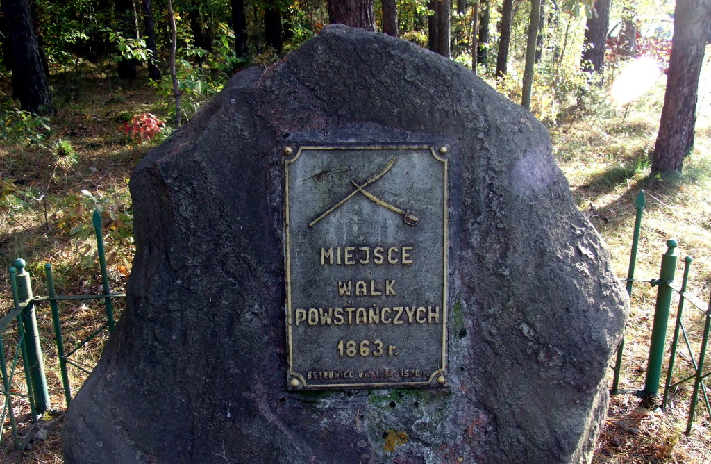 A memorial stone of a local battle during January Uprising, Sudół near Ostrowiec Swietokrzyski, Poland